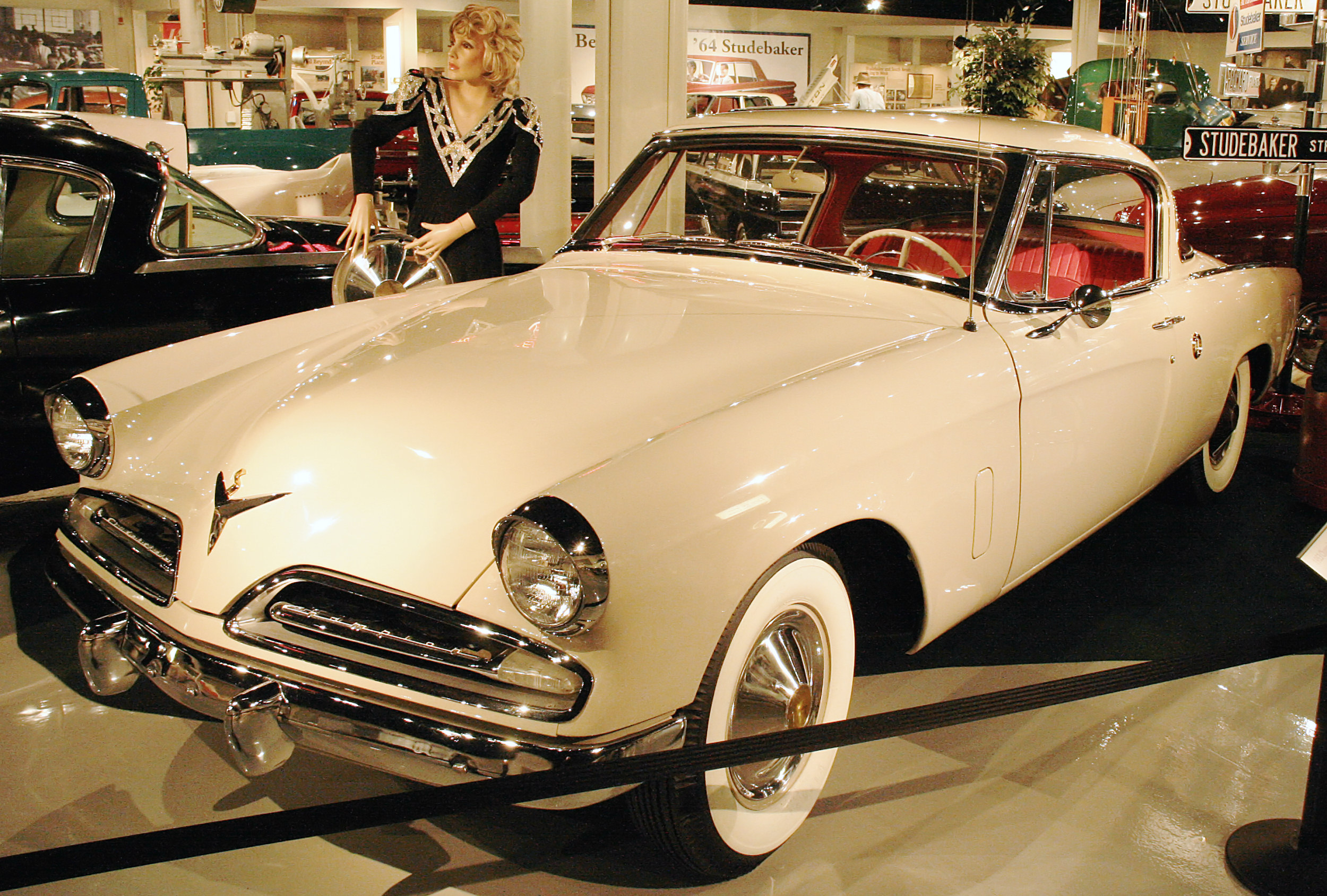 1953 Studebaker Commander Starliner Six, part of the Studebaker National Museum collection in South Bend, Indiana. Photo shot by Derek Jensen (Tysto), 2006-April-02.